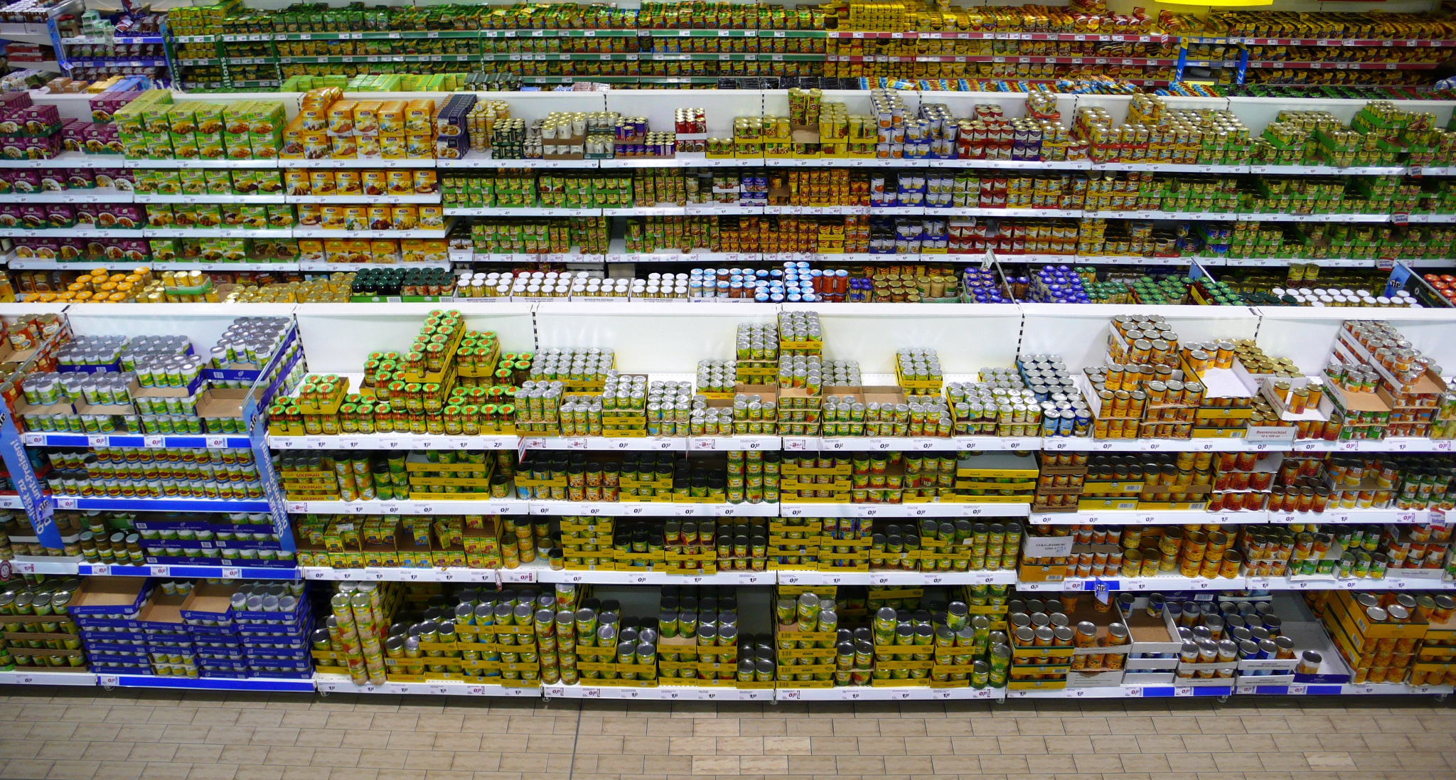 Supermarket Store, Interior